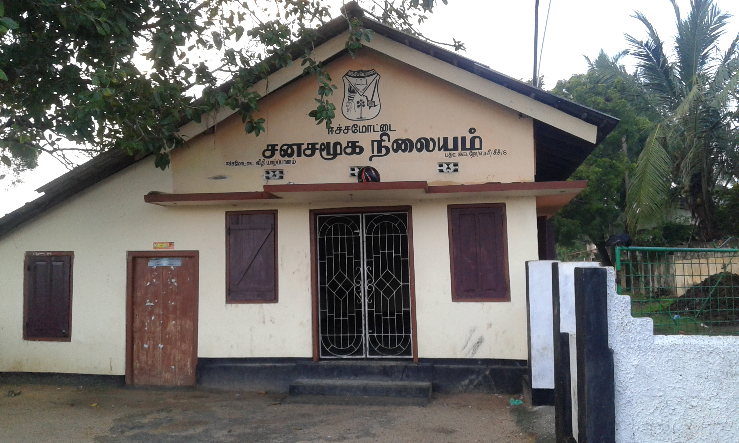 ஈச்சமொட்டை சனசமூக நிலையம்